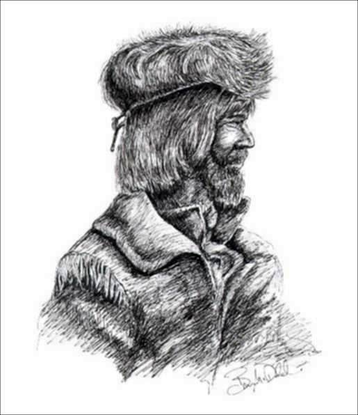 Image of David Thompson (exporer)